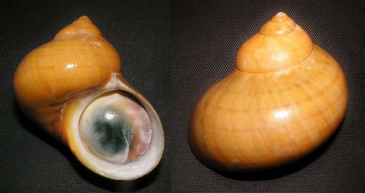 Photograph of the underside (left) and upper side (right) of the seashell Turbo petholatus Linnaeus, 1758[1]. Origin of image: Own collection: Philippines. Samar Island. Occurs in the Central and Western Pacific, in shallow reefs. Operculum green is called "cat's eye". ABBOTT, R. Tucker; DANCE, S. Peter (1982). Compendium of Seashells. A color Guide to More than 4.200 of the World's Marine Shells. New York: E. P. Dutton. p. 46. 412 pp. ISBN 0-525-93269-0